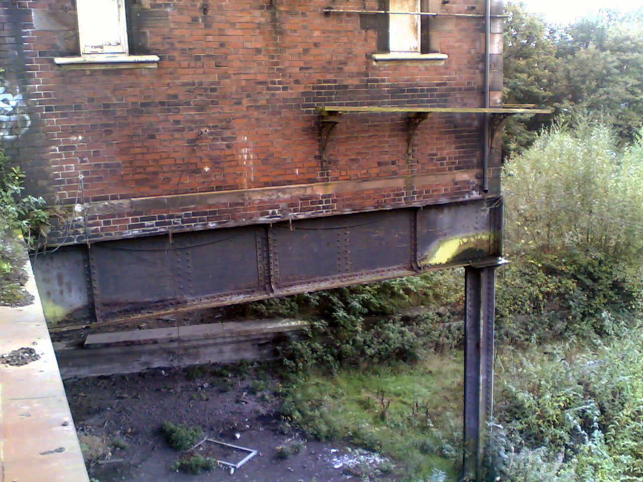 The view beneath the station building at Partick Central railway station, photographed by myself on October 20, 2006.